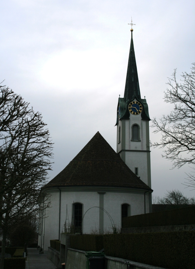 rom.-cath. church Fislisbach, Switzerland